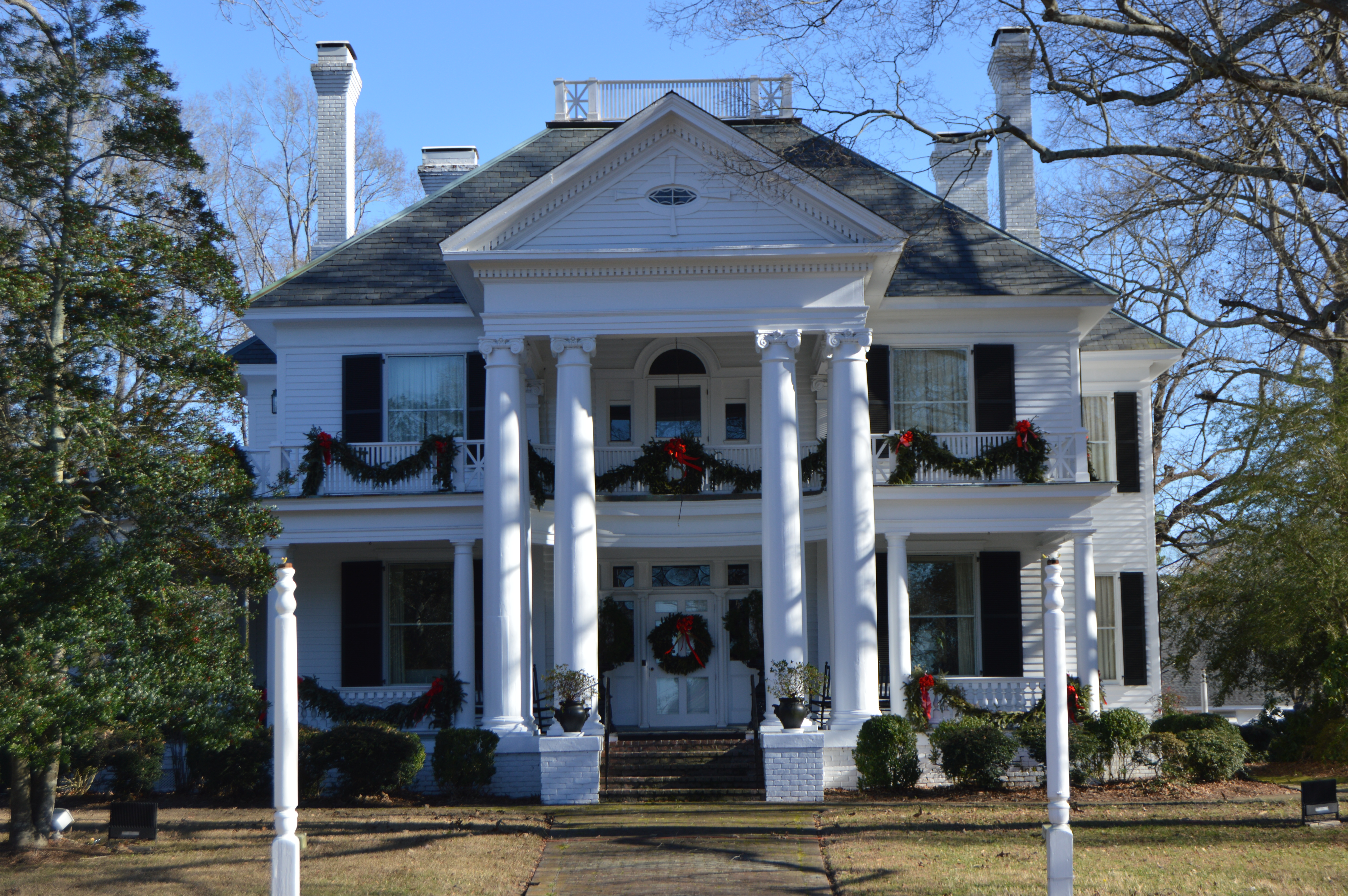 Front of the Bissette-Cooley House, located on First Street (North Carolina Highway 58) at Main Street in Nashville, North Carolina, United States. Built in 1911 and formerly the home of Harold D. Cooley, it is listed on the National Register of Historic Places.